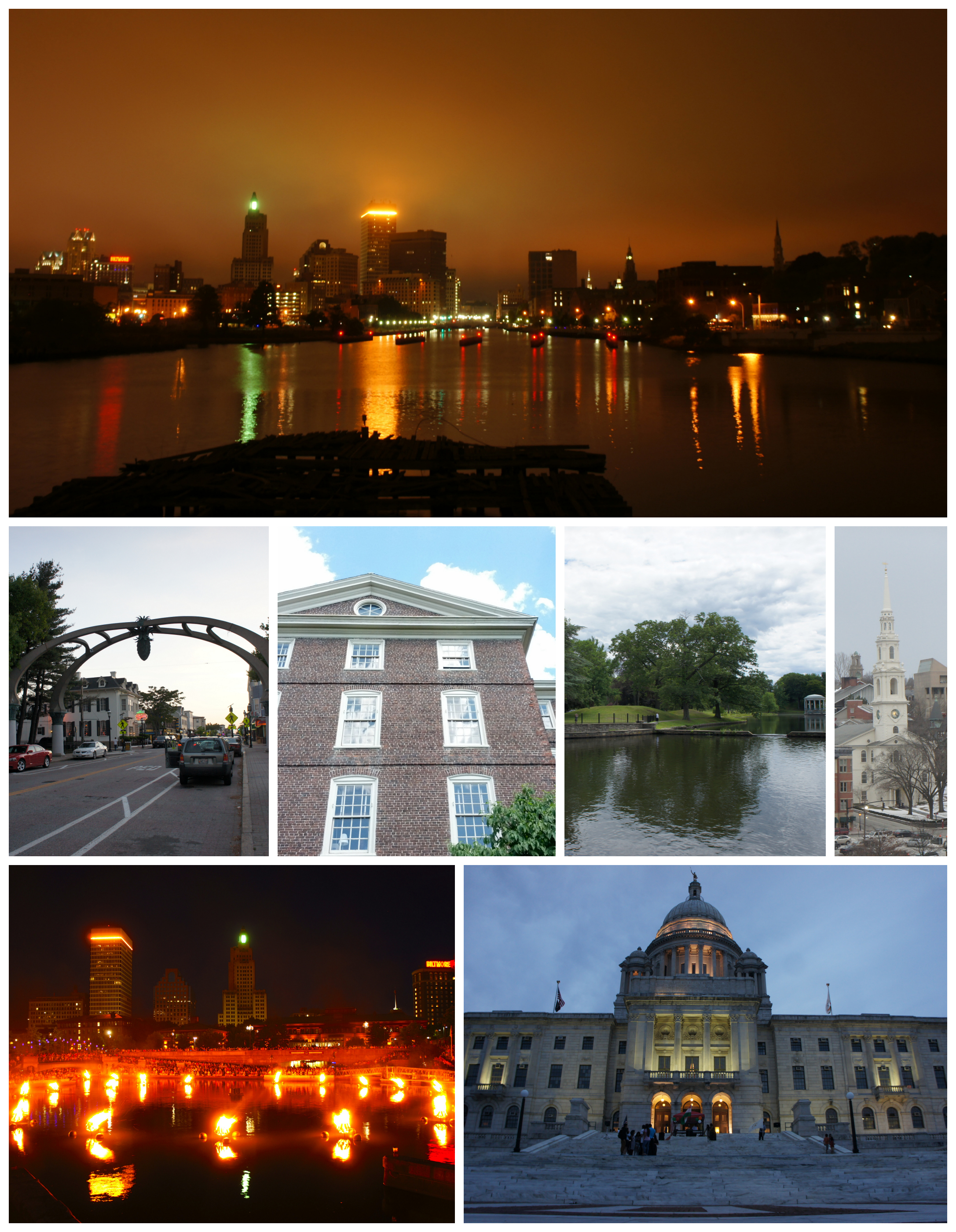 A montage of landmarks in Providence, Rhode Island From top left: Providence skyline from the Point Street Bridge, Federal Hill, University Hall at Brown University, Roger Williams Park, First Baptist Church in America, WaterFire, and the Rhode Island State House